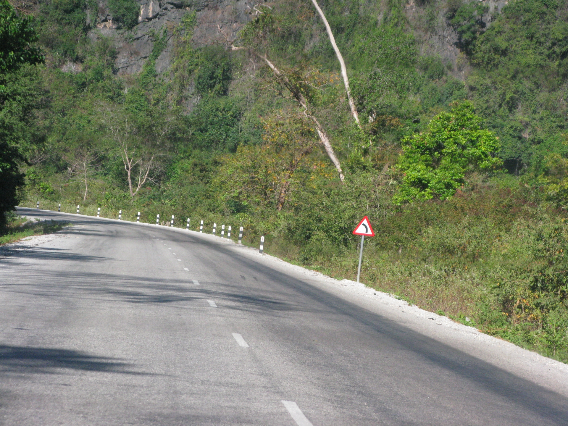 National Route #12 in Laos.